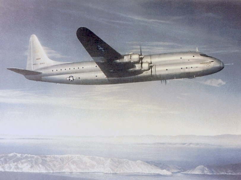 The U.S. Navy Lockheed XR6O-1 Constitution (BuNo 85163) in flight. This aircraft was retired on 31 December 1952 and scrapped at McCarran Field, Las Vegas, Nevada (USA), in 1969.